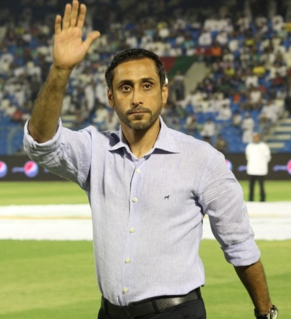 The Saudi football coach Sami Aljaber